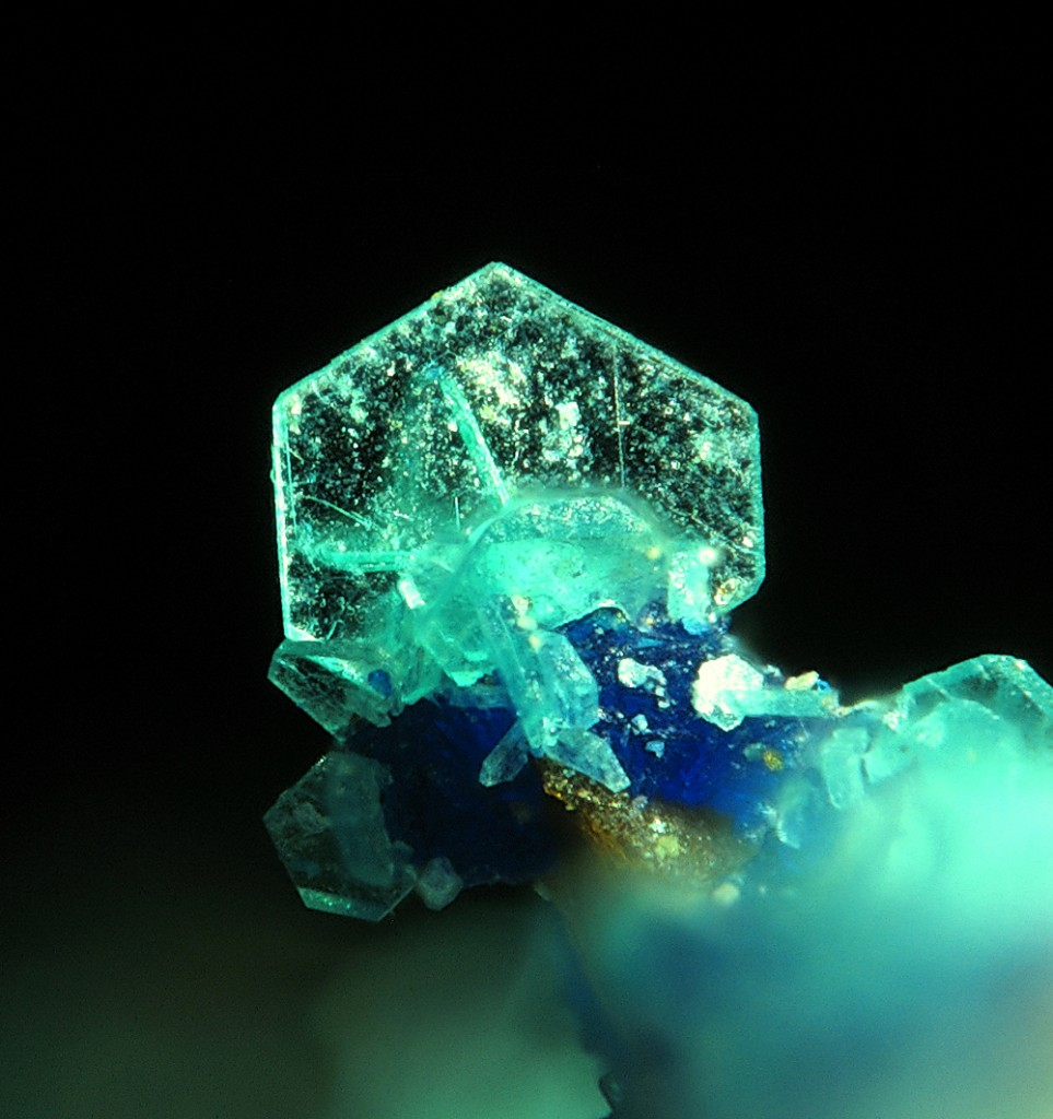 Chalcophyllite Locality: Piesky, Špania Dolina (Urvölgy; Herrengrund), Špania Dolina ore belt, Starohorské Mts, Banská Bystrica Region, Slovakia Picture width 1 mm. Collection and photograph Christian Rewitzer